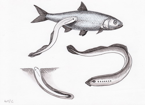 Carpathian brook lamprey feeds Asp as ectoparasites and parasites of fish.